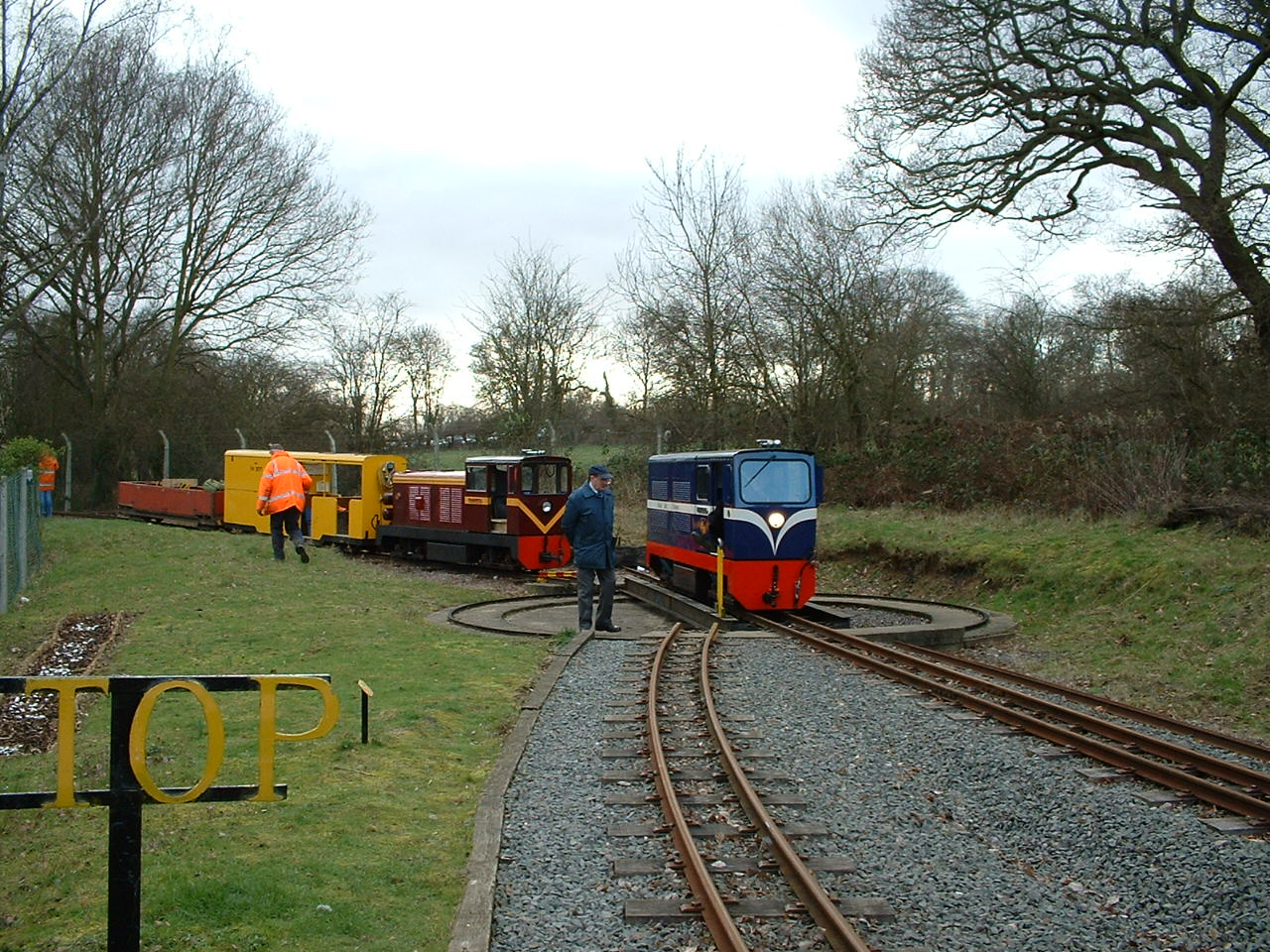 'Graham Alexander' is seen on the Water's Edge Station turntable with 'Lady Of The Lakes' in the background with the Pway train.